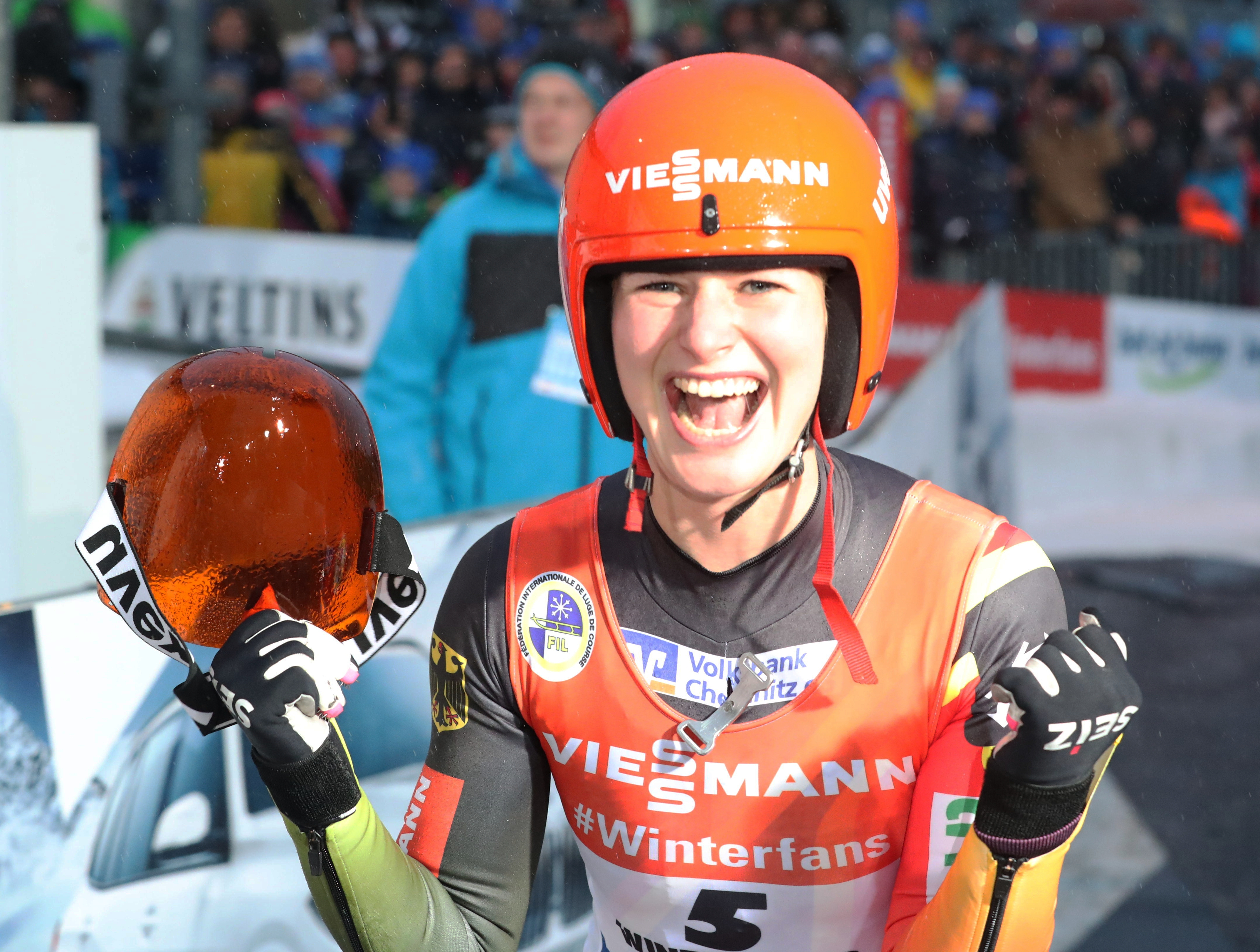 Women's race at the FIL World Luge Championships 2019 in Winterberg